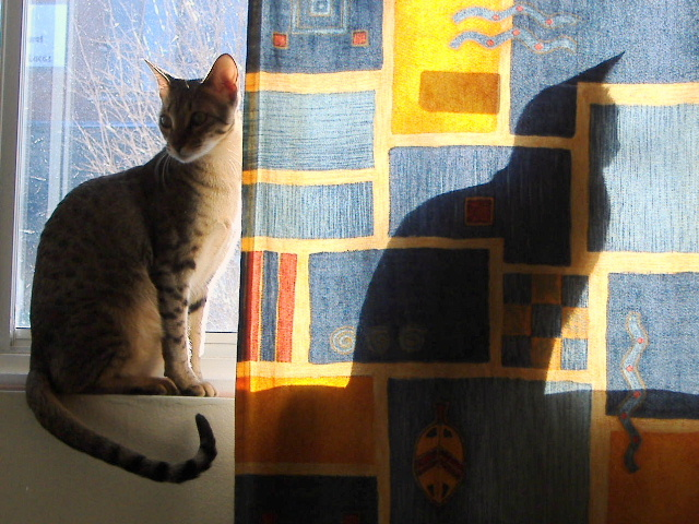 Chat de race Serengeti Brown Spotted.